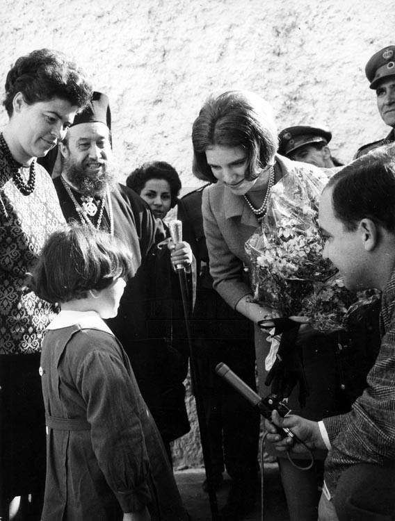 Queen Anne Marie of Greece in Pyrgos